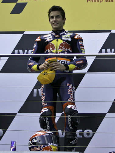 Phillip Island 125cc podium 2010This is cropped version. Original size is here.